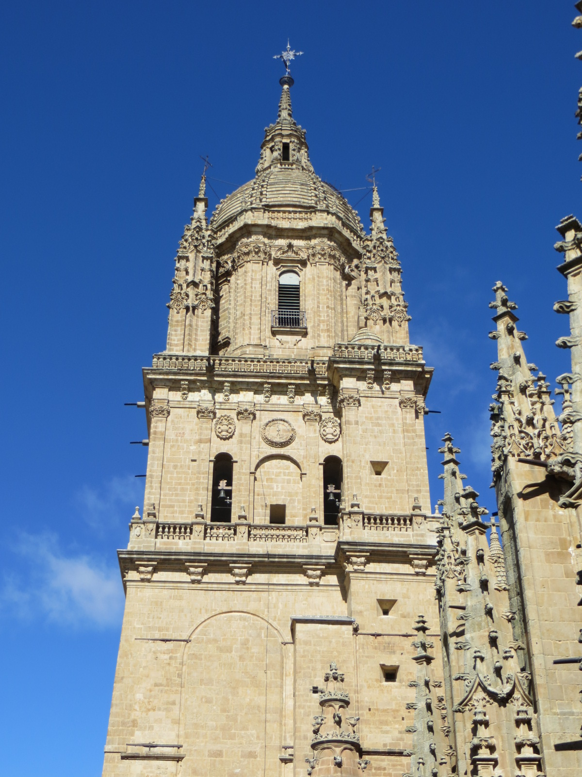 Tower of the New Cathedral of Salamanca